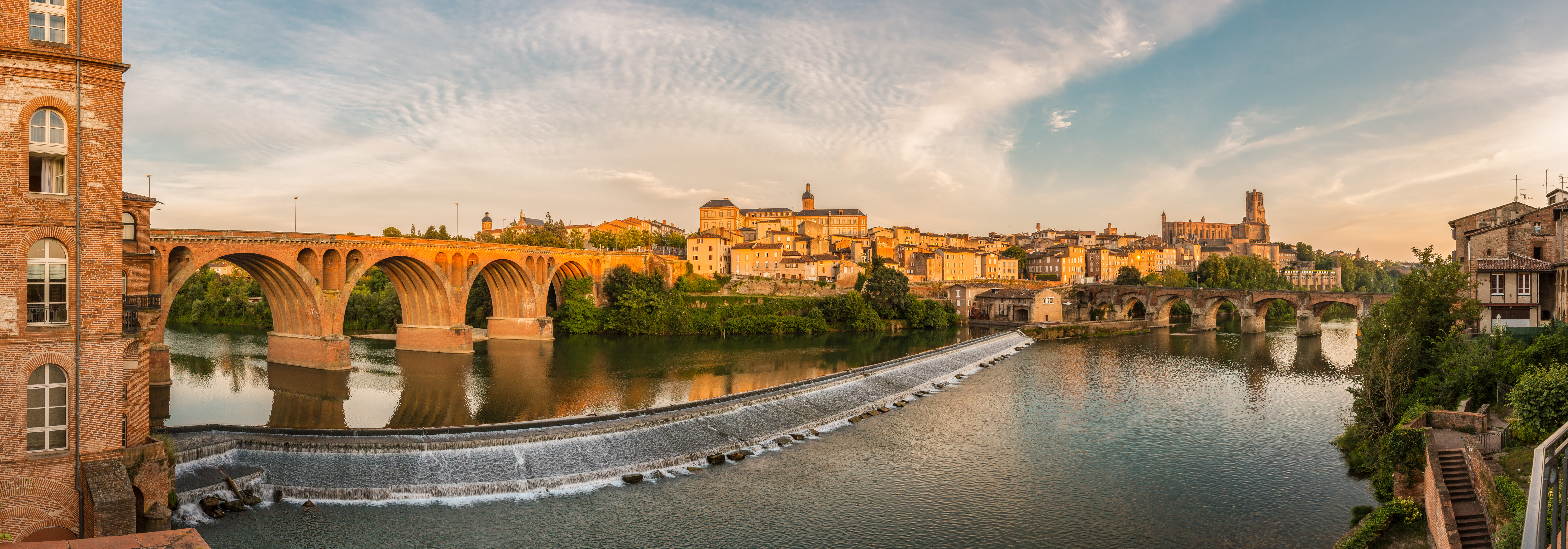 City of Albi at sunset time, featuring the old city and Sainte-Cécile cathedral in the middle, the bridge of 22nd of August 1944 on the left, and the Pont Vieux (old bridge) on the right.